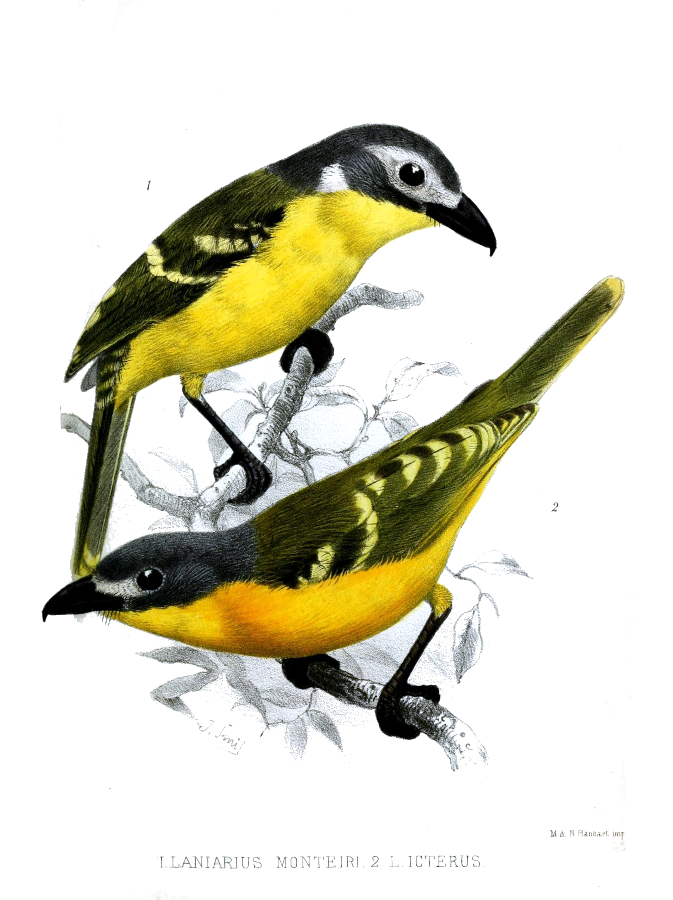 Monteiro's Bush-shrike, adult female (above); Grey-headed Bush-shrike, adult (below)